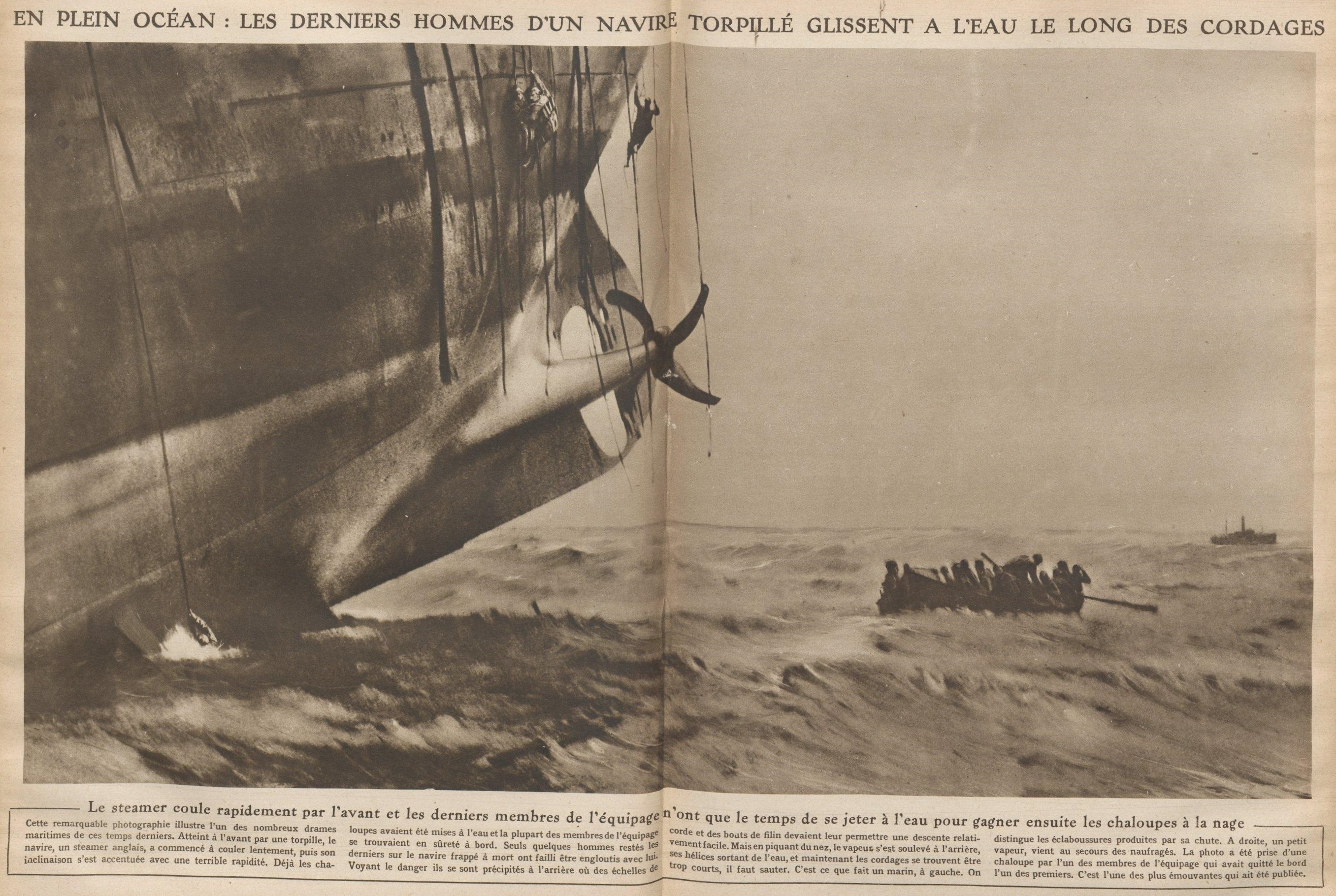 English ship sinks after being torpedoed by a German submarine during the Battle of the Atlantic in 1917 approximate translation. Above; In the middle of the ocean, the last men of a torpedoed ship water slide along the strings. Below: This photograph shows one of the many tragedies of our time. Hit by a torpedo on the bow, the English steamer runs slowly, then faster and faster. The boats have been put in the water and most of the crew was rescued. Only a few men, in danger of being swallowed up, had to escape by throwing himself back into the sea or using rope ladders. To the right, a small steamer comes to the rescue of shipwrecked. The photograph is from a boat carried by one of the crew members who evacuated the ship. Photograph published by the French weekly Le Miroir May 20, 1917.